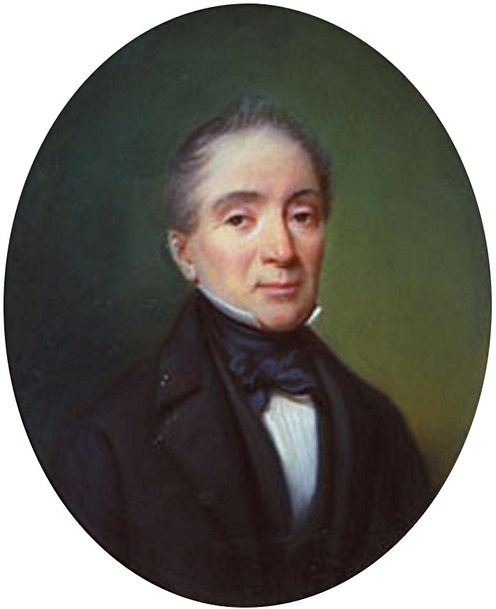 Florestan I of Monaco (died in 1856)